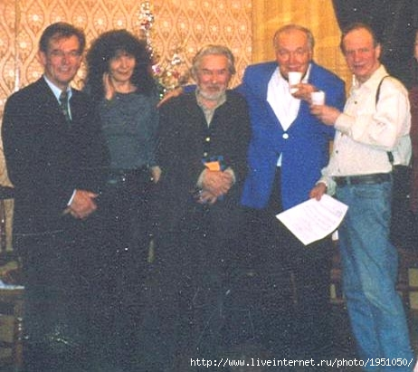 Voznesenskij Van Nunen Kacuba Aigi Kedrov 2005 Moskva